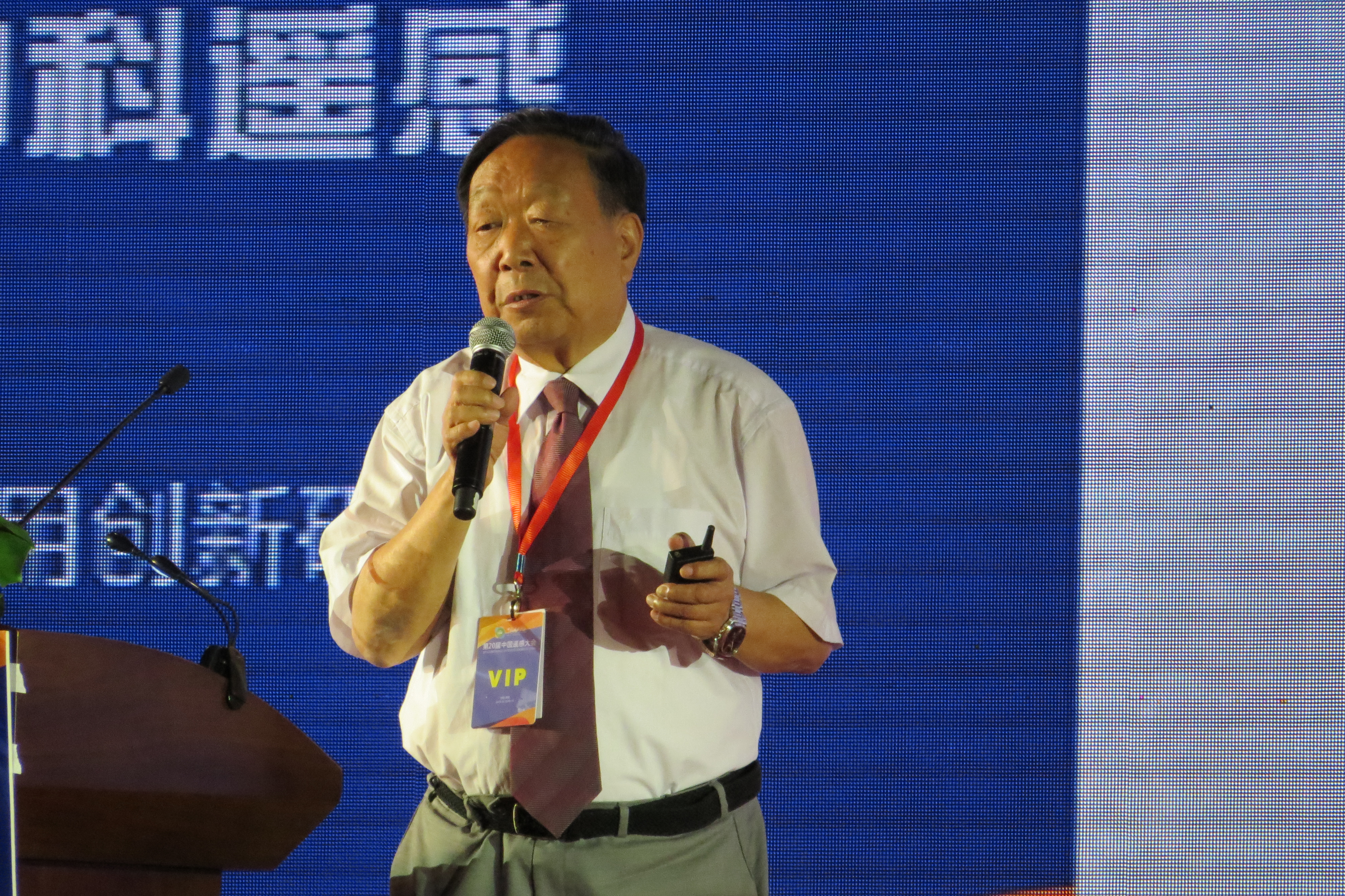 Remote sensing in the era of Big Data...